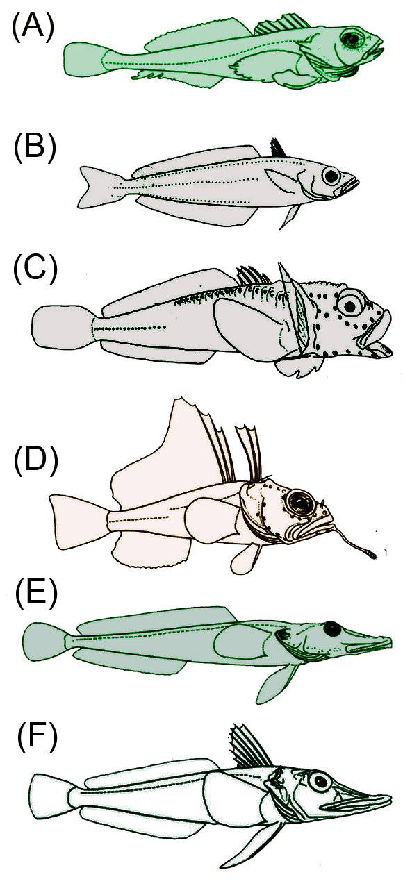 Six examples of Notothenioidei. Work based in an image from: "Antarctic Fish and Fisheries" by K.-H. Kock, 1992 (who got permit to use it from an older work from FAO). The work was vectorized and modified in an edition software (Adobe Photoshop) by user:Brandonortizc